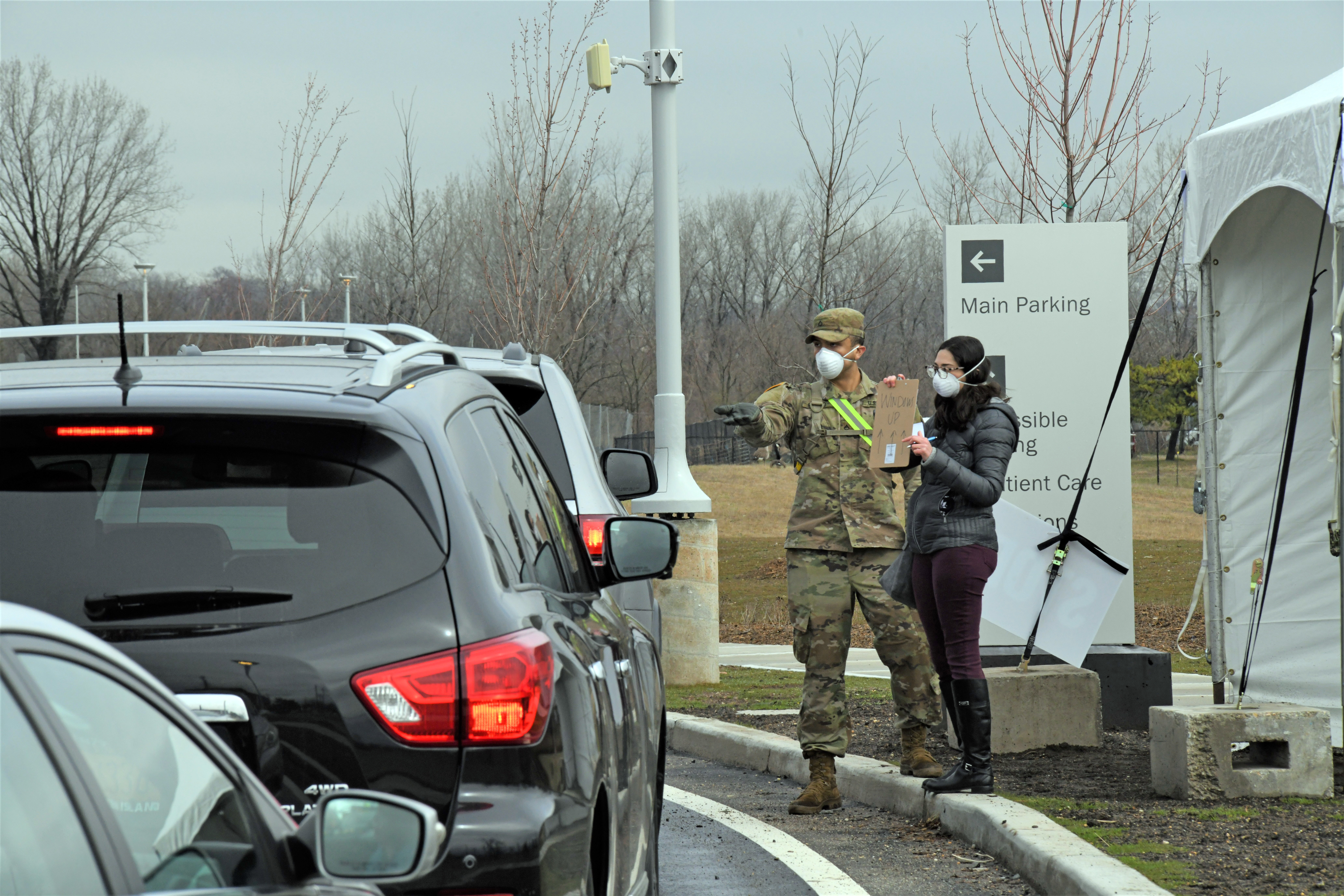 Drivers pass through a check point at the drive-thru COVID-19 Mobile Testing Center located at the South Beach Behavioral Center, Staten Island, Mar. 19, 2020. (U.S. Air National Guard photo by Maj. Patrick Cordova)